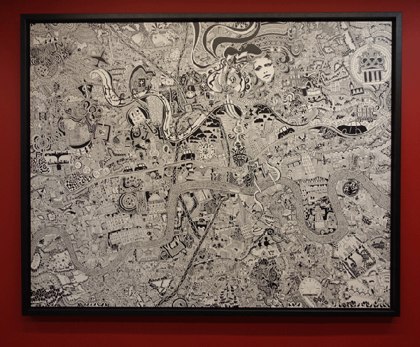 London Town map by the artist Fuller hanging on a red wall